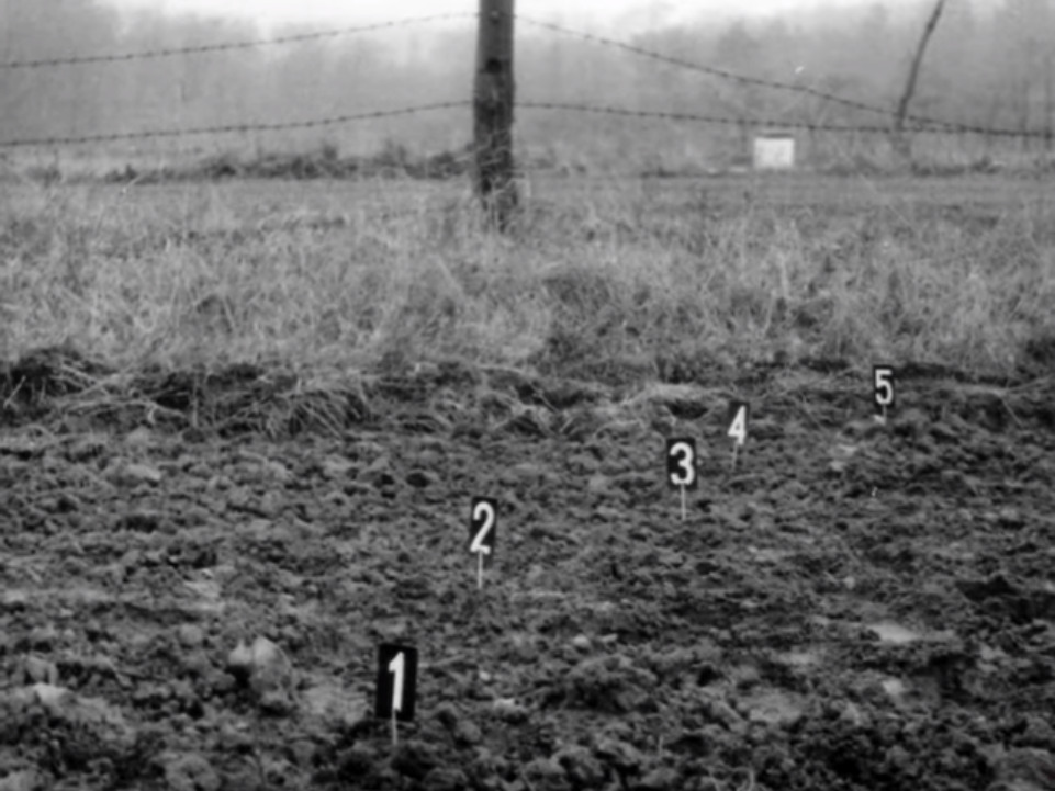 Border Protection Forces in Pokrzywna.